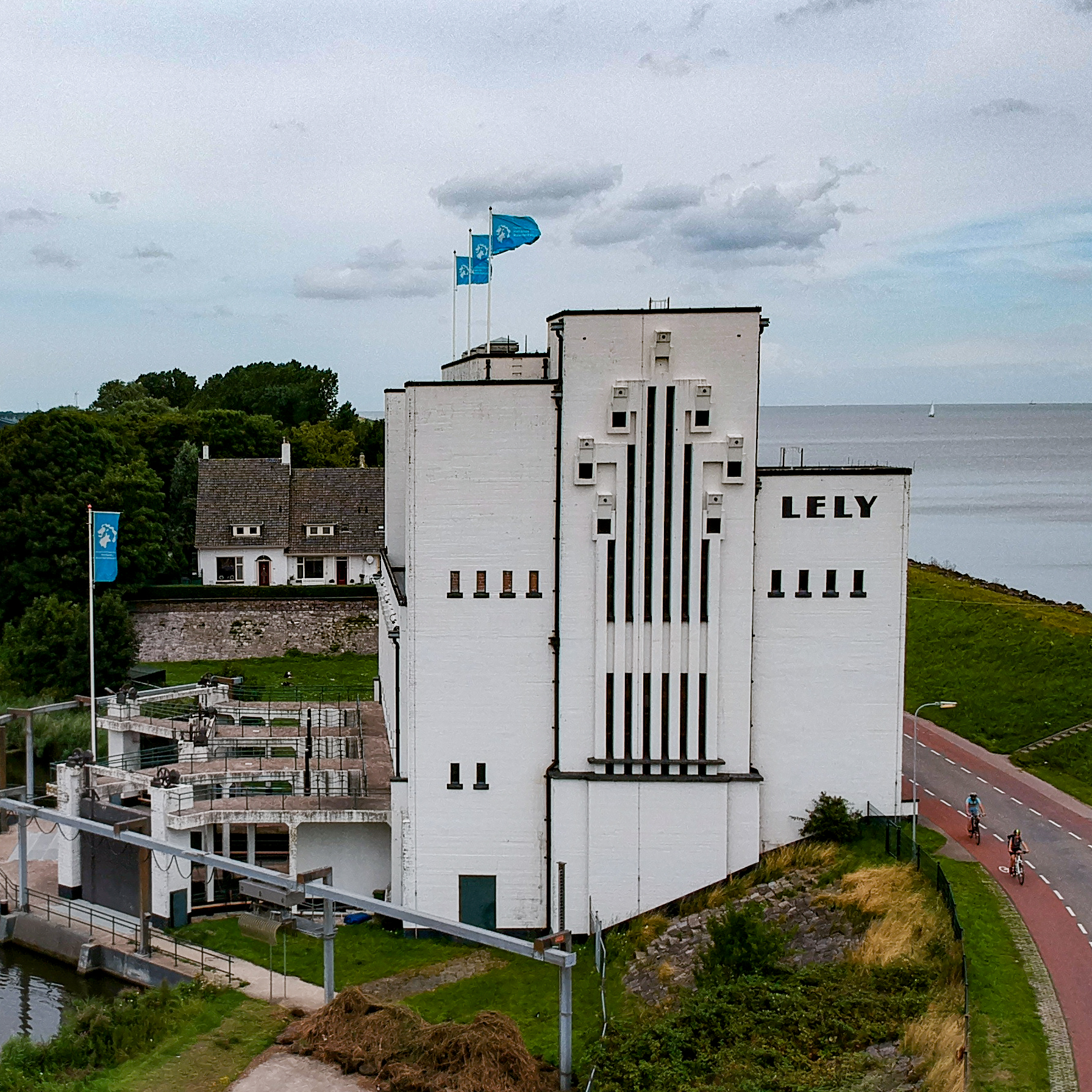 Gemaal Lely building